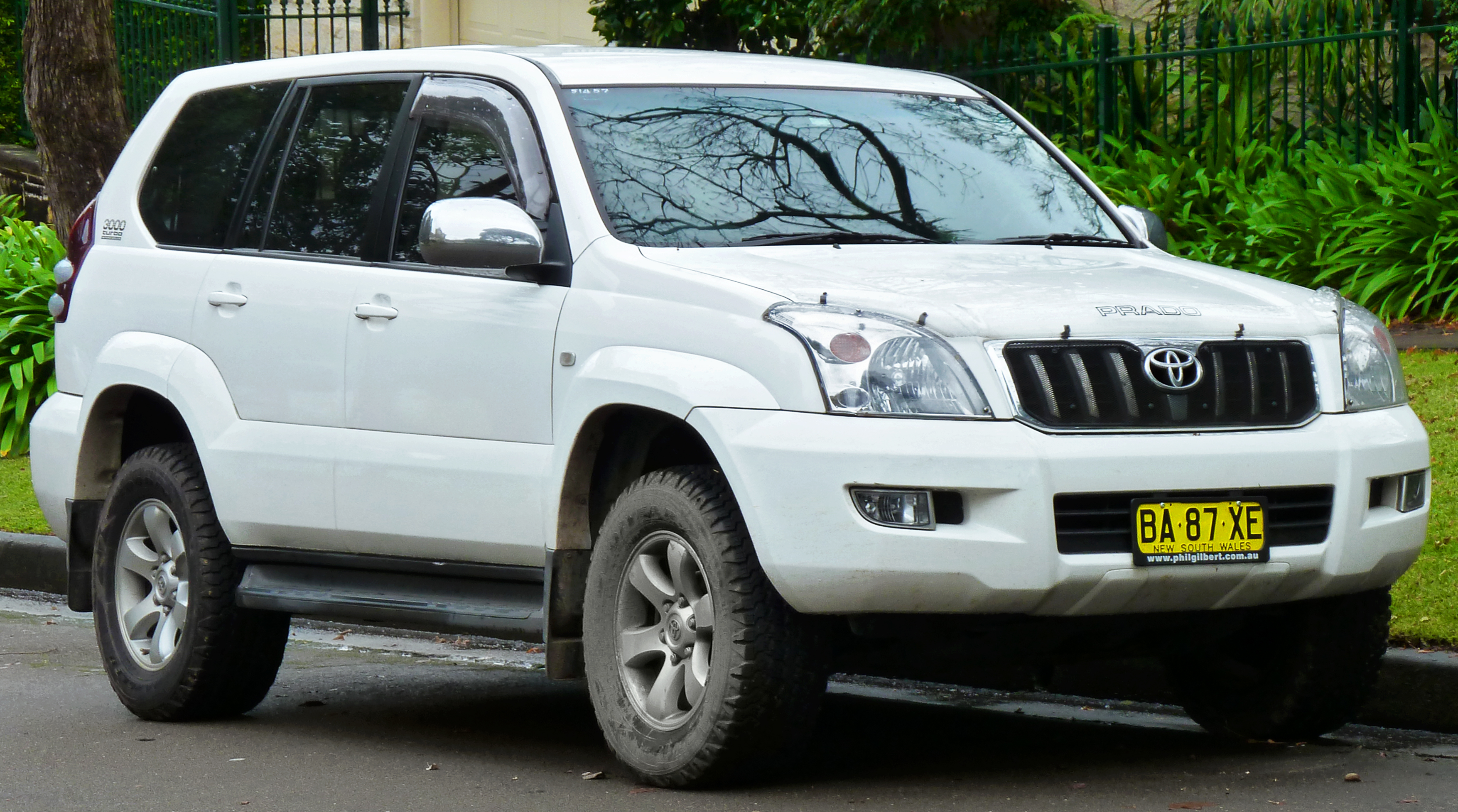 2005 Toyota Land Cruiser Prado (KZJ120R) GXL wagon. Photographed in Gordon, New South Wales, Australia.